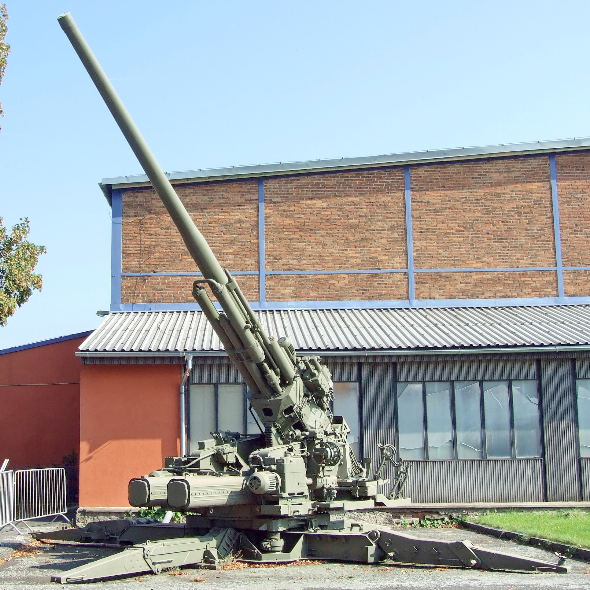 Soviet KS 30 AAA canon used by Czechoslovakia army